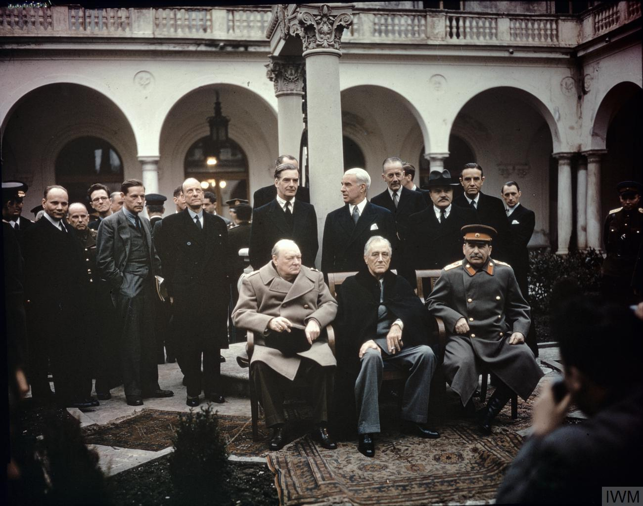 The Yalta Conference, Crimea, February 1945 The Prime Minister, the Rt Hon Winston Churchill, MP the President of the United States, Mr Franklin Roosevelt Marshal Joseph Stalin of the Soviet Union photographed in the grounds of the Livadia Palace, Yalta during the eight day Yalta Conference. Standing behind the three leaders are, left to right: the British Foreign Secretary, the Rt Hon Anthony Eden, MP the American Secretary of State, Mr Edward Stettinius the British Permanent Under-Secretary of State for Foreign Affairs, the Rt Hon Sir Alexander Cadogan the Soviet Commissar for Foreign Affairs, Mr Vyacheslav Molotov the American Ambassador in Moscow, Mr Averell Harriman